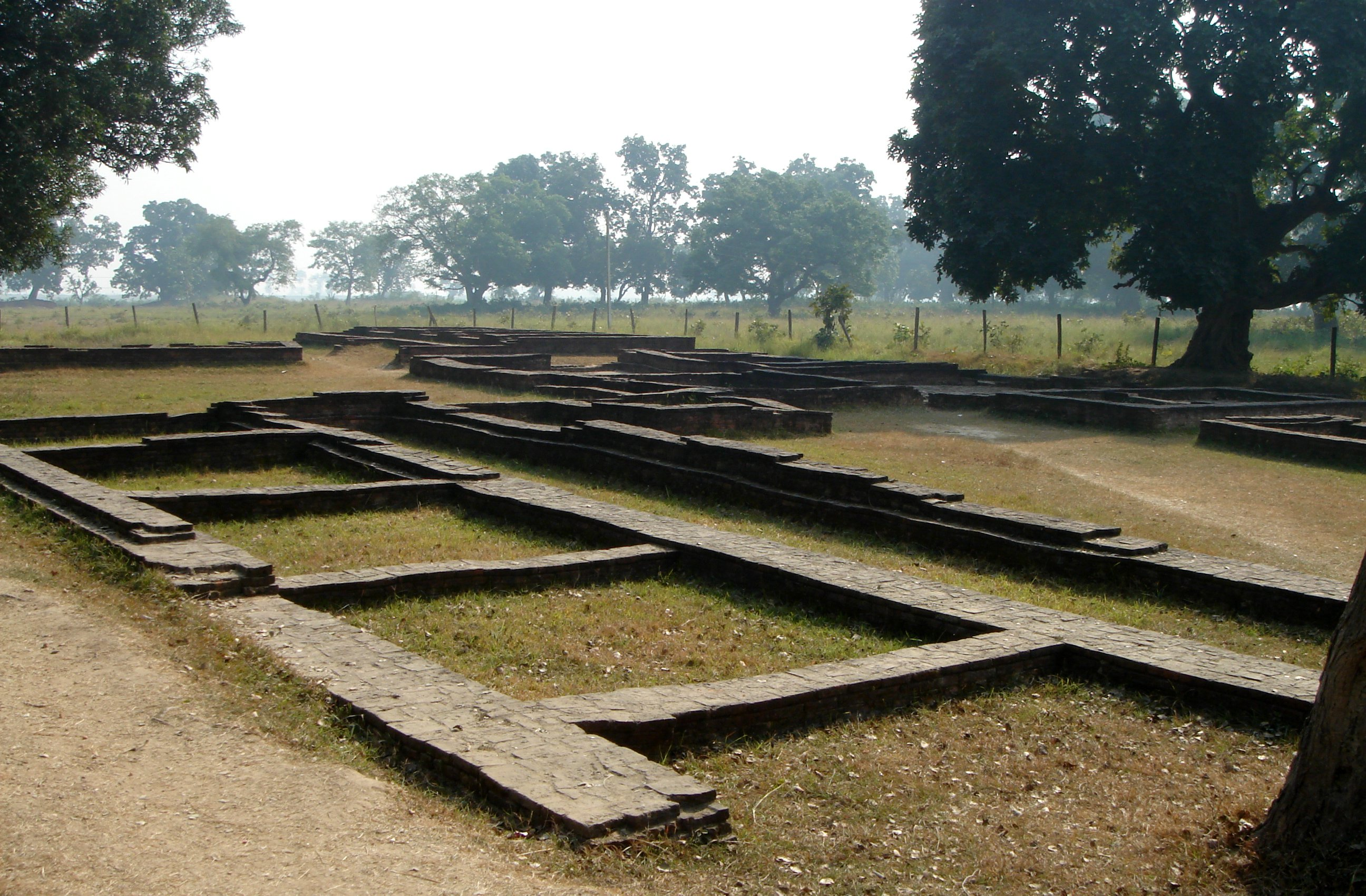 Remains of some structures (houses or the Royal Palace?) in Tilaurakot, the site of the city of Kapilavastu (also: Kapilavatthu) in Nepal (close to Lumbini). Gautama Buddha grew up in this city.